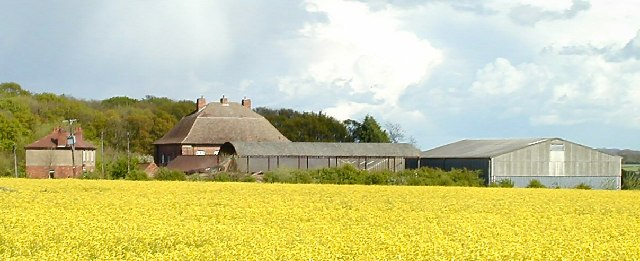 Highfields, Costock. Sitting in a sea of Rape once again.